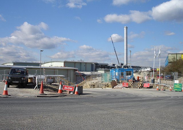 Integrated waste disposal facility, Allington